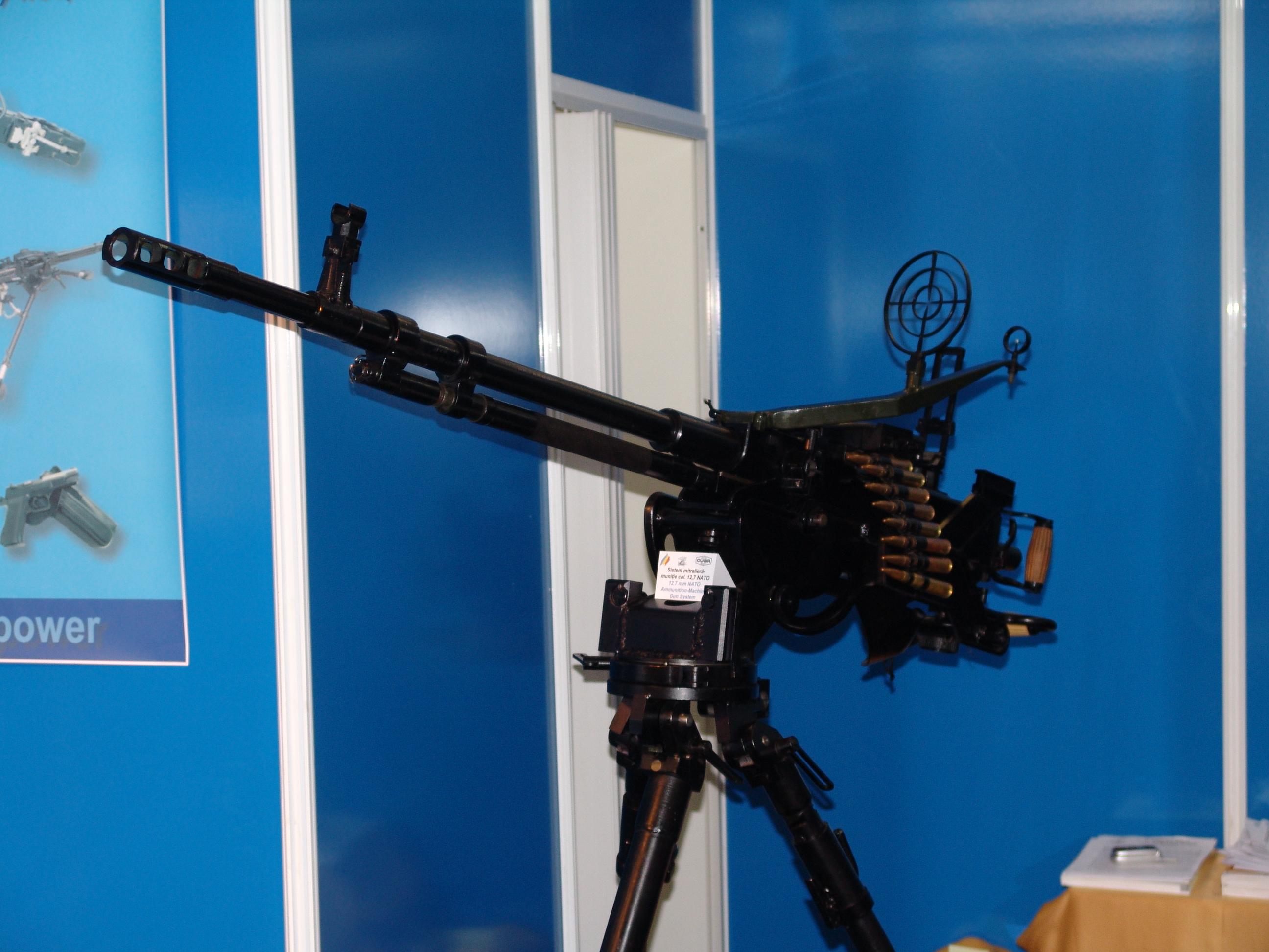 DShK MG in 12.7 mm NATO made by UM Cugir on display at Expomil '05.